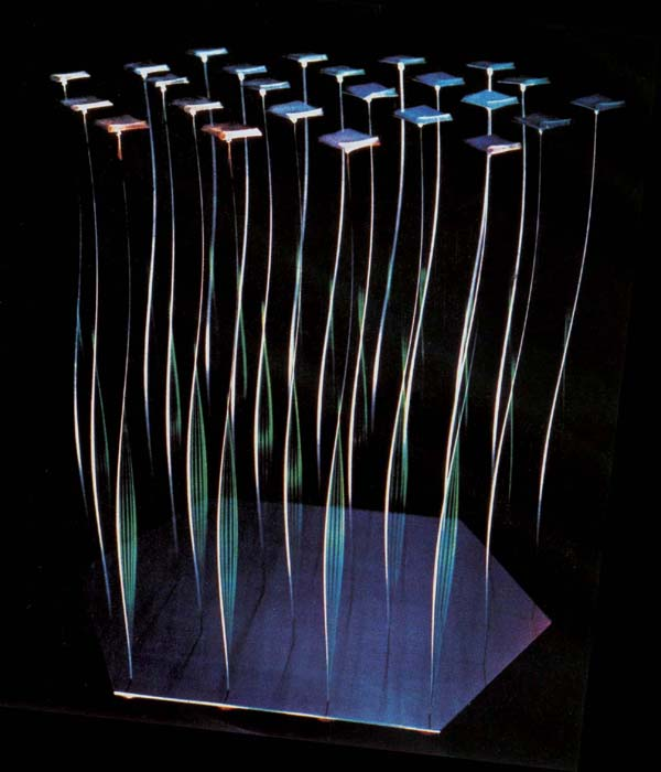 Tsai's Square Tops, 1969